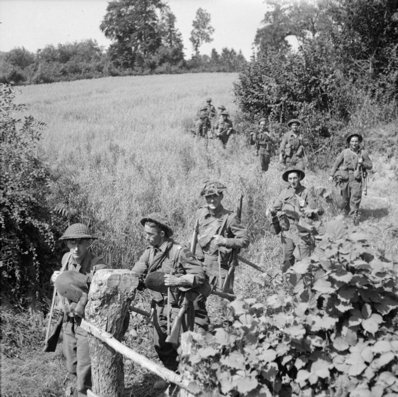 The British Army in the Normandy Campaign 1944 Men of the Seaforth Highlanders advance up to the front line, 4 August 1944.